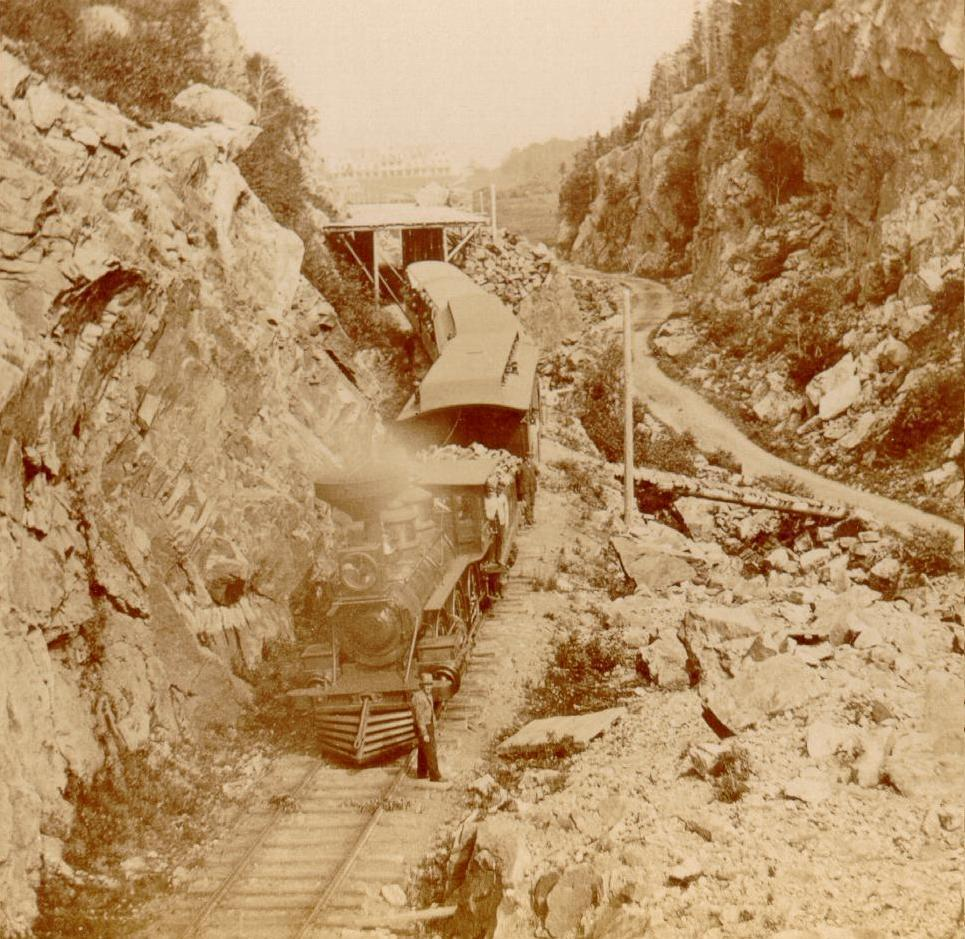 Gates of the Crawford Notch, and Train -- at the summit on August 7, 1875, the Portland & Ogdensburg Railroad connected track with the Boston, Concord & Montreal Railroad. In the distance is The Crawford House hotel (1859-1977).